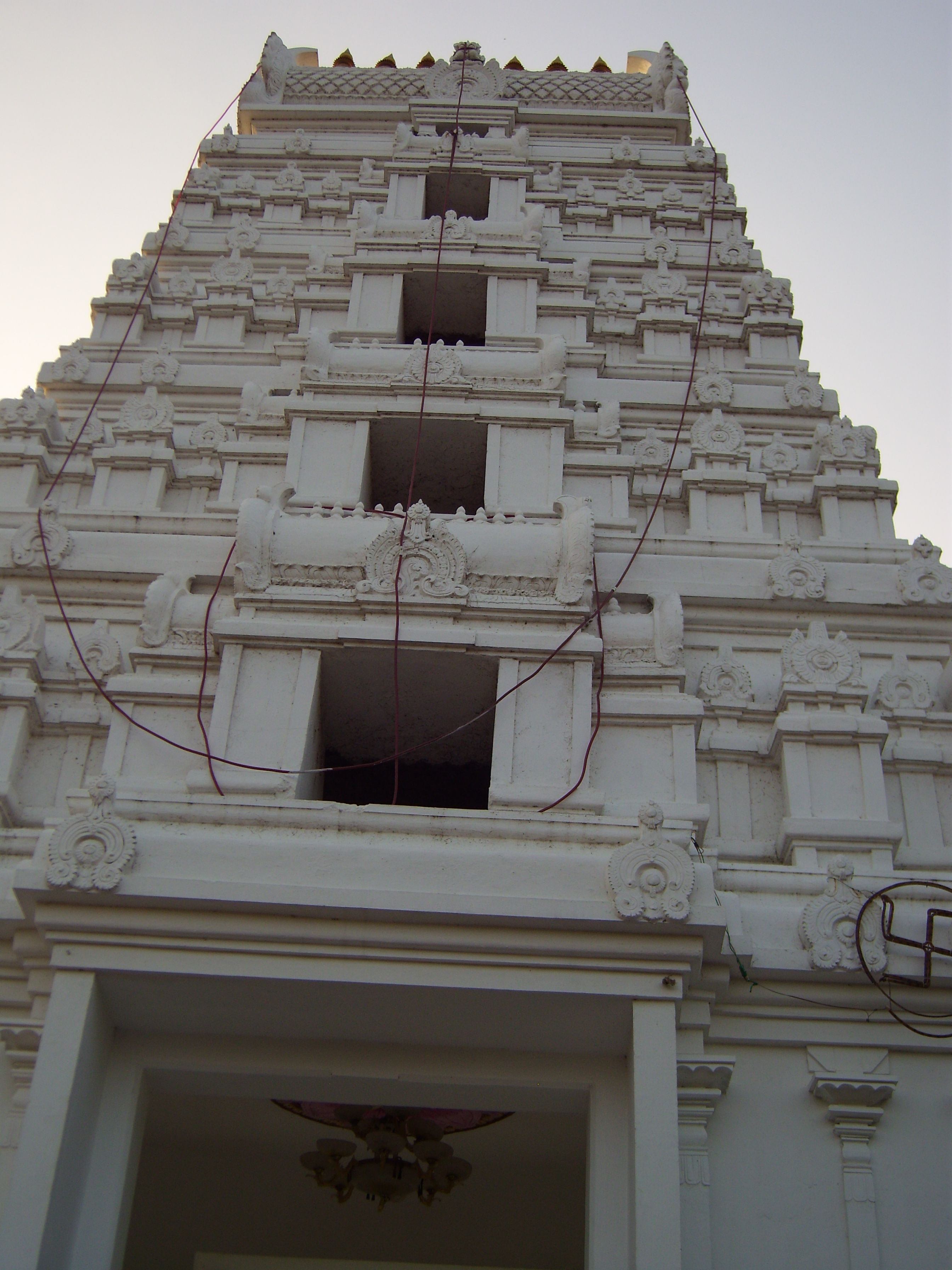 Ratnalayam Venkateswara Temple